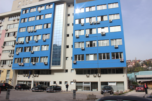 Building housing several institutions of Federation of Bosnia and Herzegovina